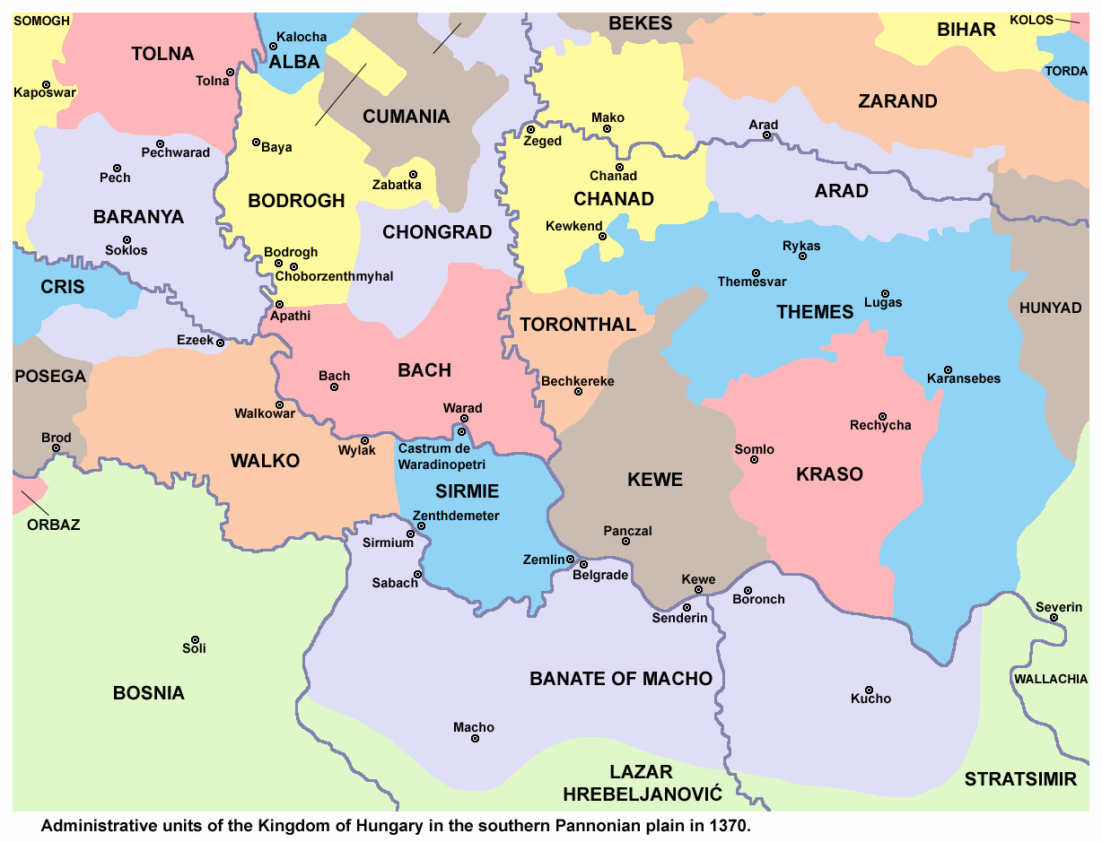 Administrative units of the Kingdom of Hungary in the southern Pannonian plain in 1370.